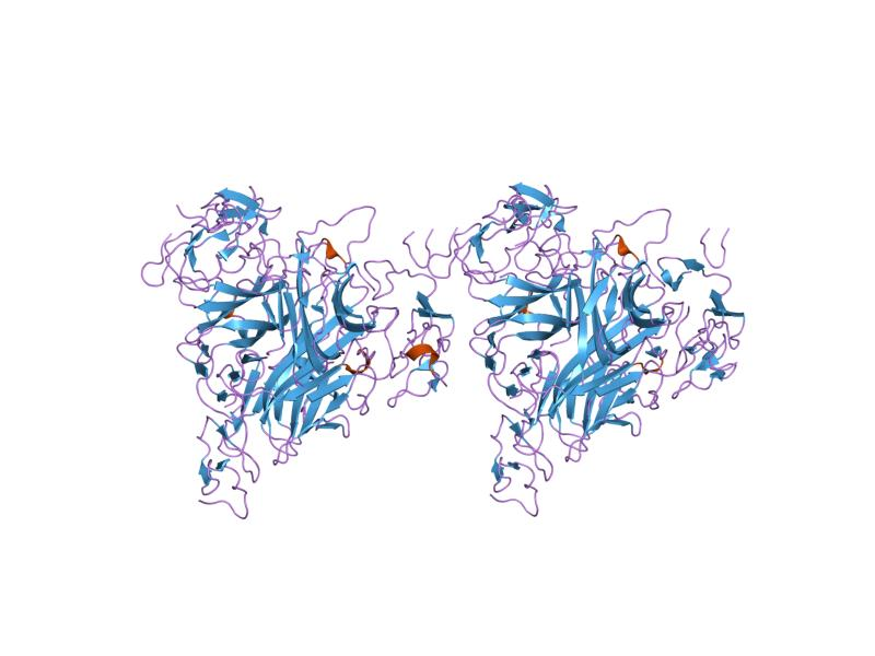 Cartoon representation of the molecular structure of protein registered with 1du3 code.